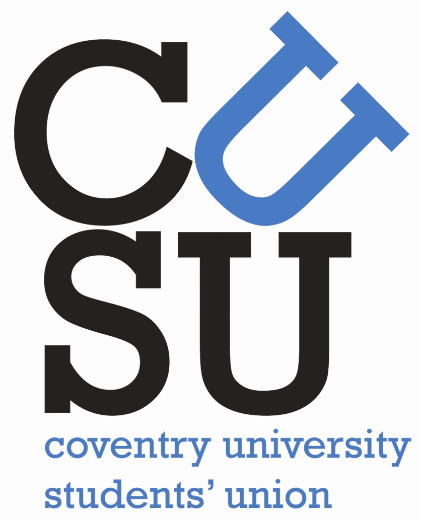 Coventry University Students' Union logo. The logo was designed by Coventry University student; Nick McBurney in 2010. The CUSU rebrand was part of a final year project and competition for Coventry Graphic Design students. The competition involved 3 designs chosen by CUSU senior staff and students chose their favourite logo.